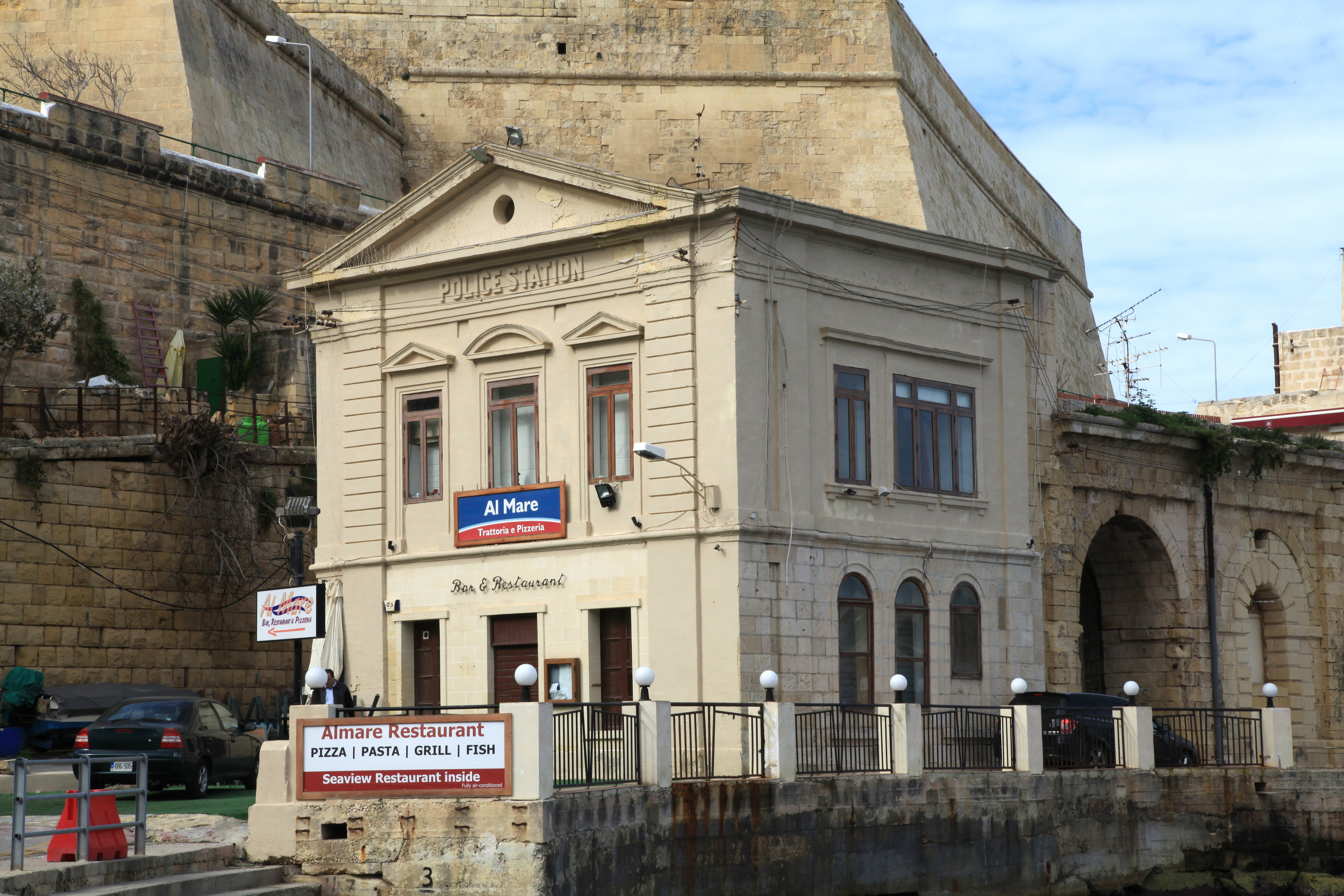 Triq il-Lanċa in Valletta, Malta